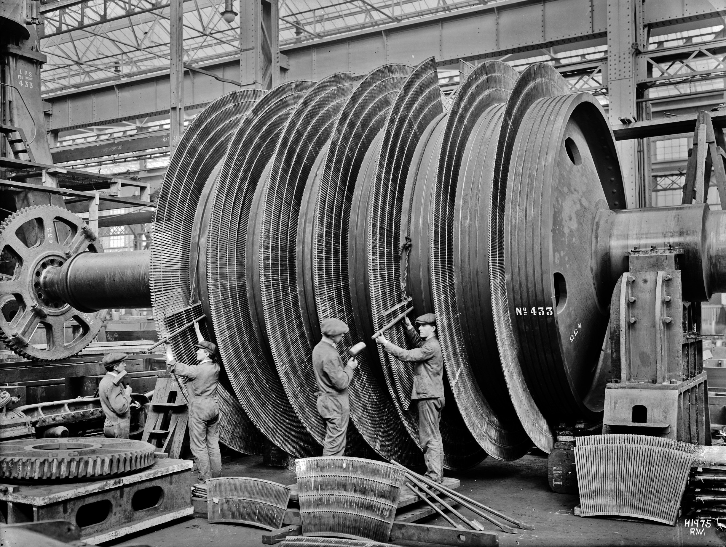 Workmen assembling the turbine engines of the HMHS Britannic circa 1915